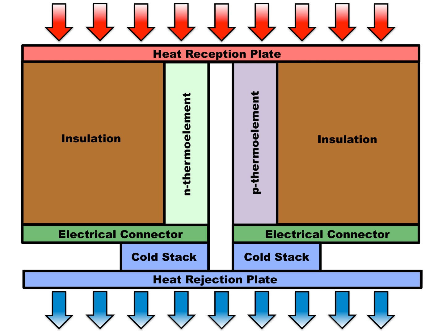 The thermoelectric couple (also called thermocouple or unicouple) consists of a SiGe n-leg doped with boron and a SiGe p-leg doped with phosphorus as thermoelements for heat conversion into electrical power in radioisotope thermoelectric generators (RTGs).